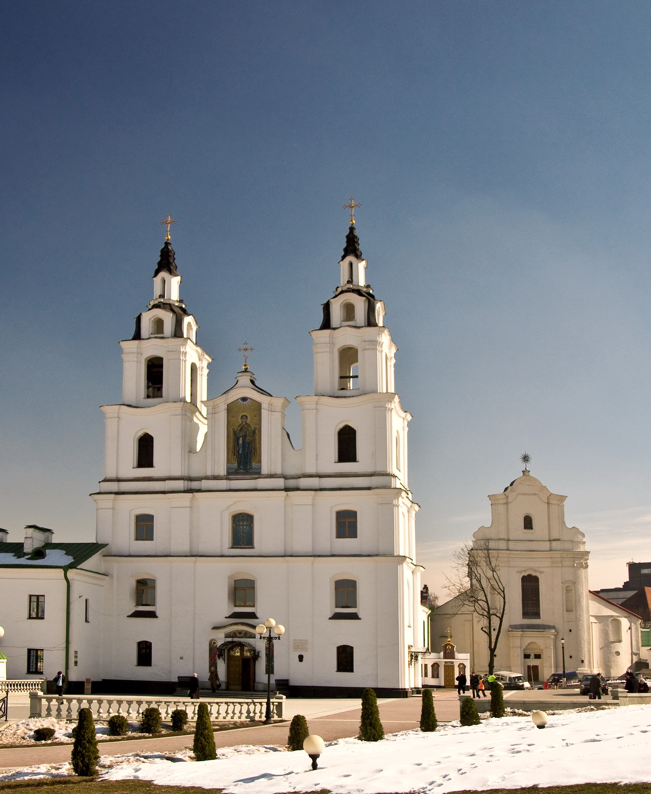 Holy Spirit Cathedral (Minsk city, Belarus). Photoed 12 March 2010 AD